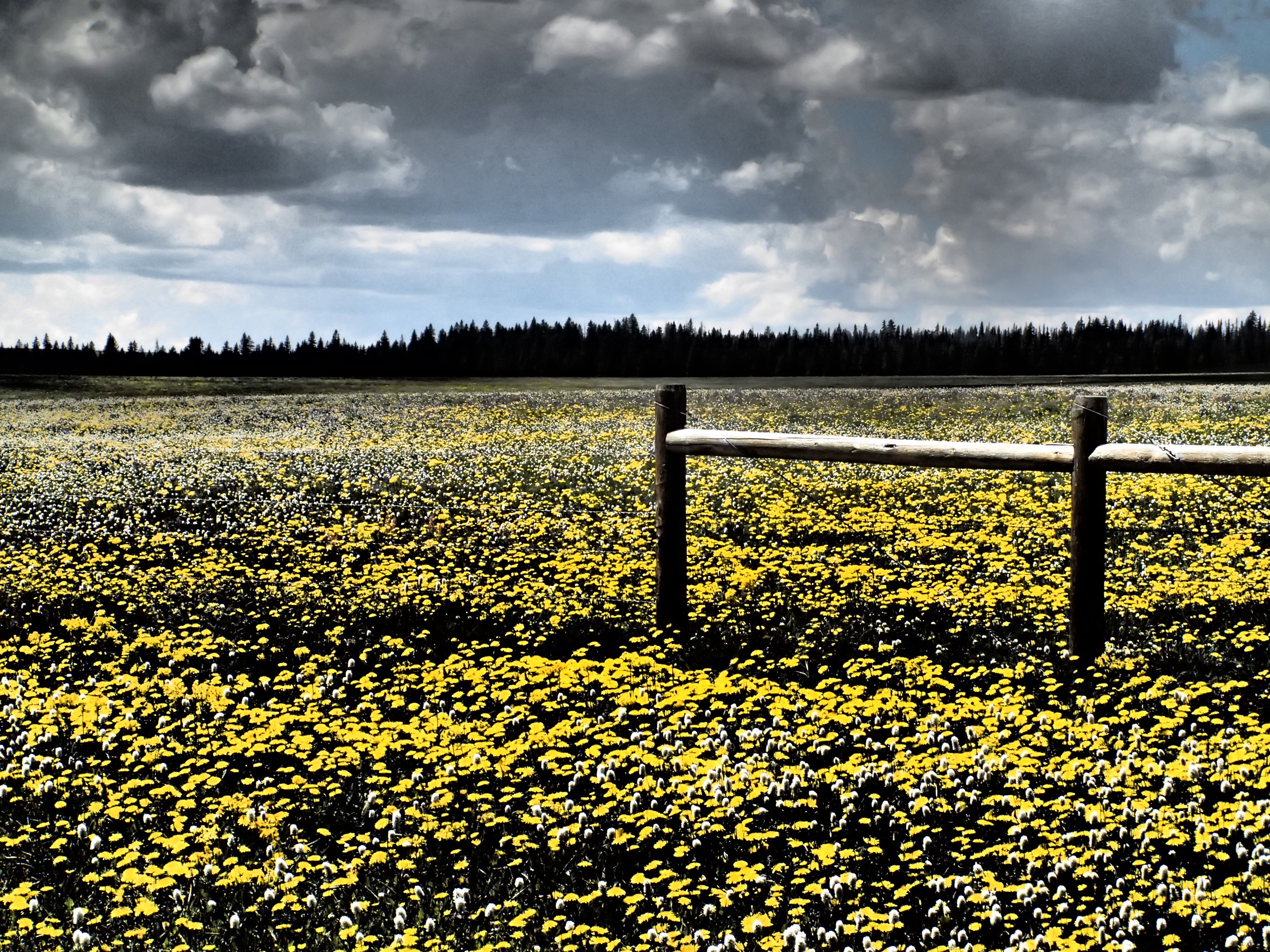 Gravelly Range Montana Landscapes July 2013